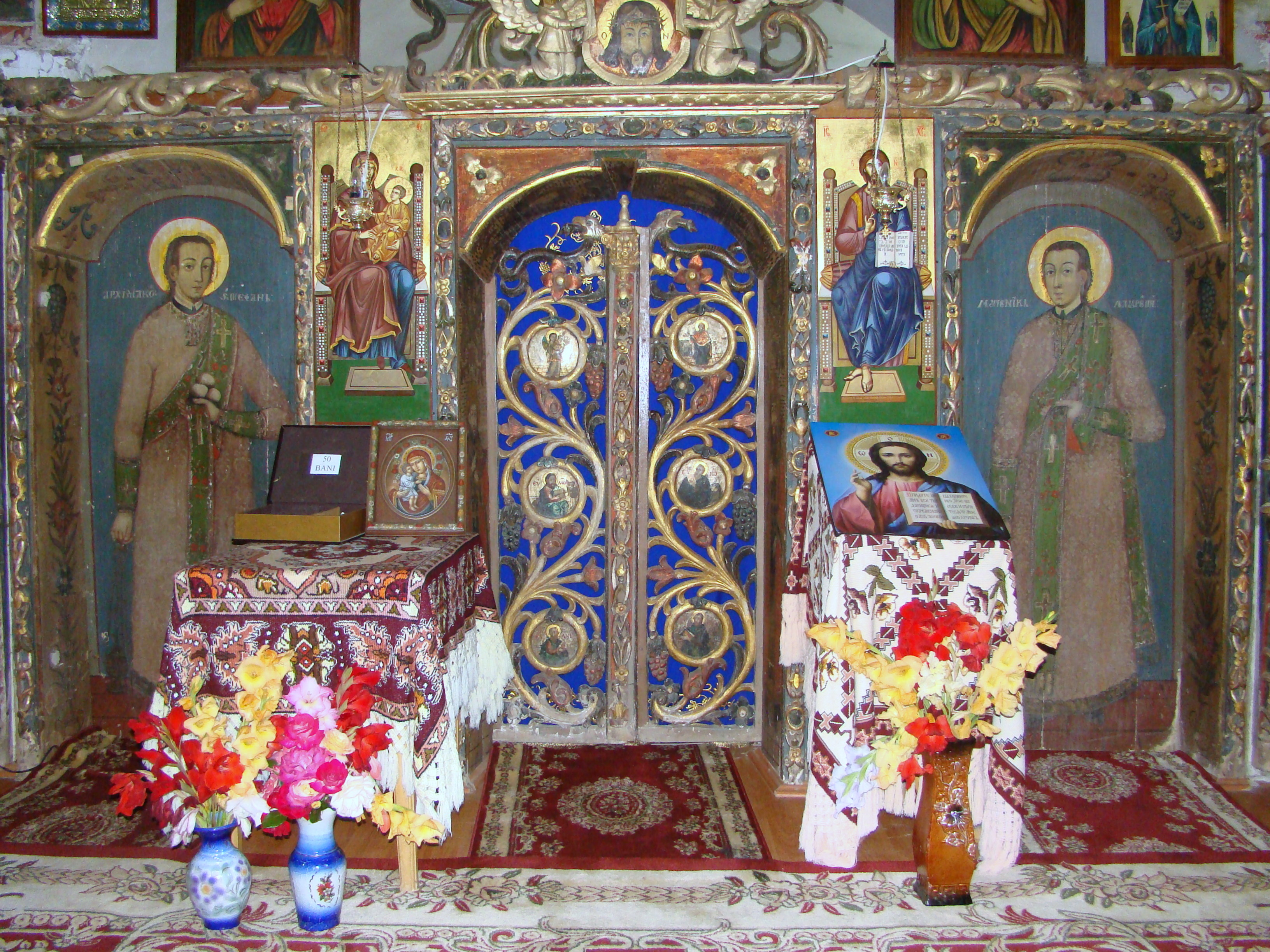 Saint Paraskeva's church in Maieru, Bistrița-Năsăud county, Romania